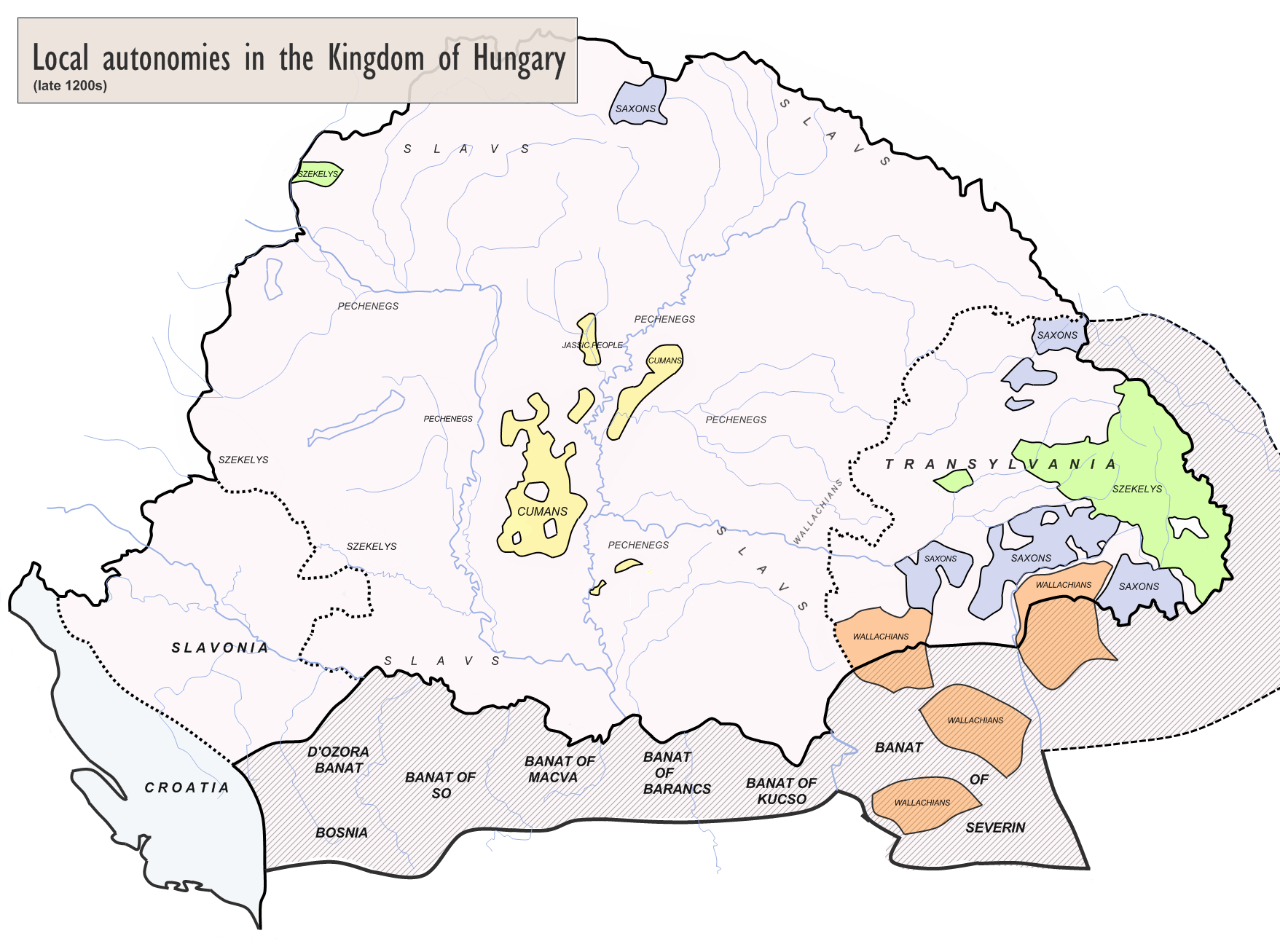 Local autonomies in the Kingdom of Hungary